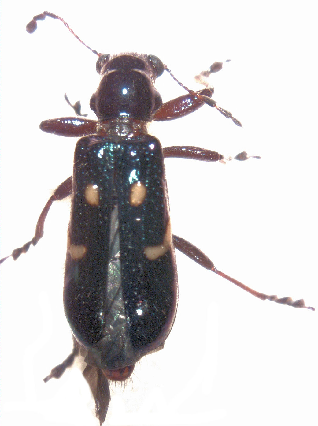 adult Phymatophaea guttigera